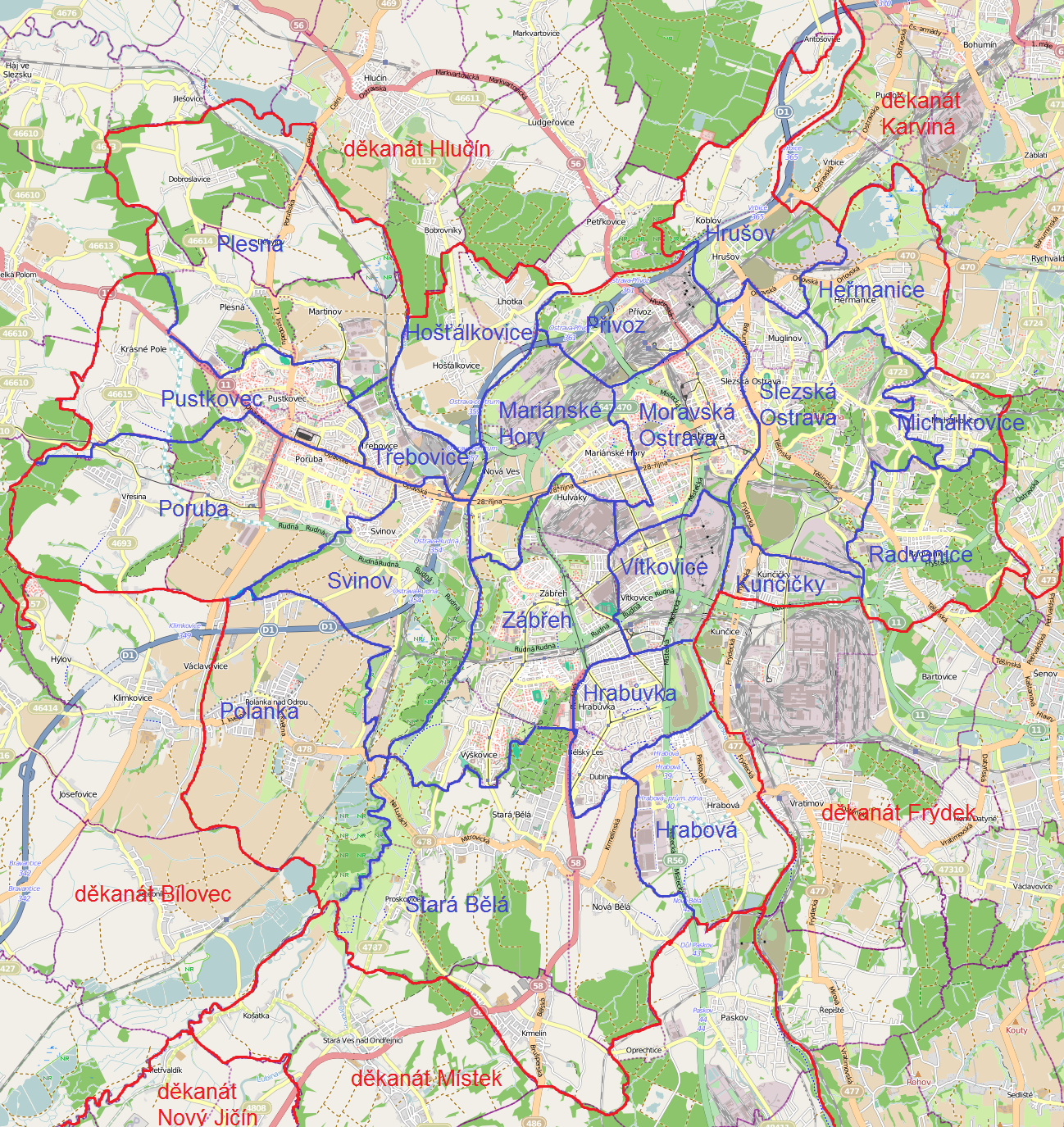 Ostrava Deanery with parish boundariesThis map of Ostrava, Ostravský kraj, Czech Republic was created from OpenStreetMap project data, collected by the community. This map may be incomplete, and may contain errors. Don't rely solely on it for navigation.